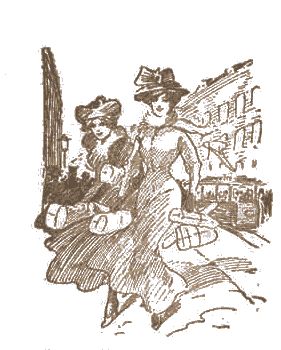 Illustration for the 9th chapter of the serial "Norrtullsligans krönika", published in daily Dagens Nyheter, December 8, 1907, page 1.